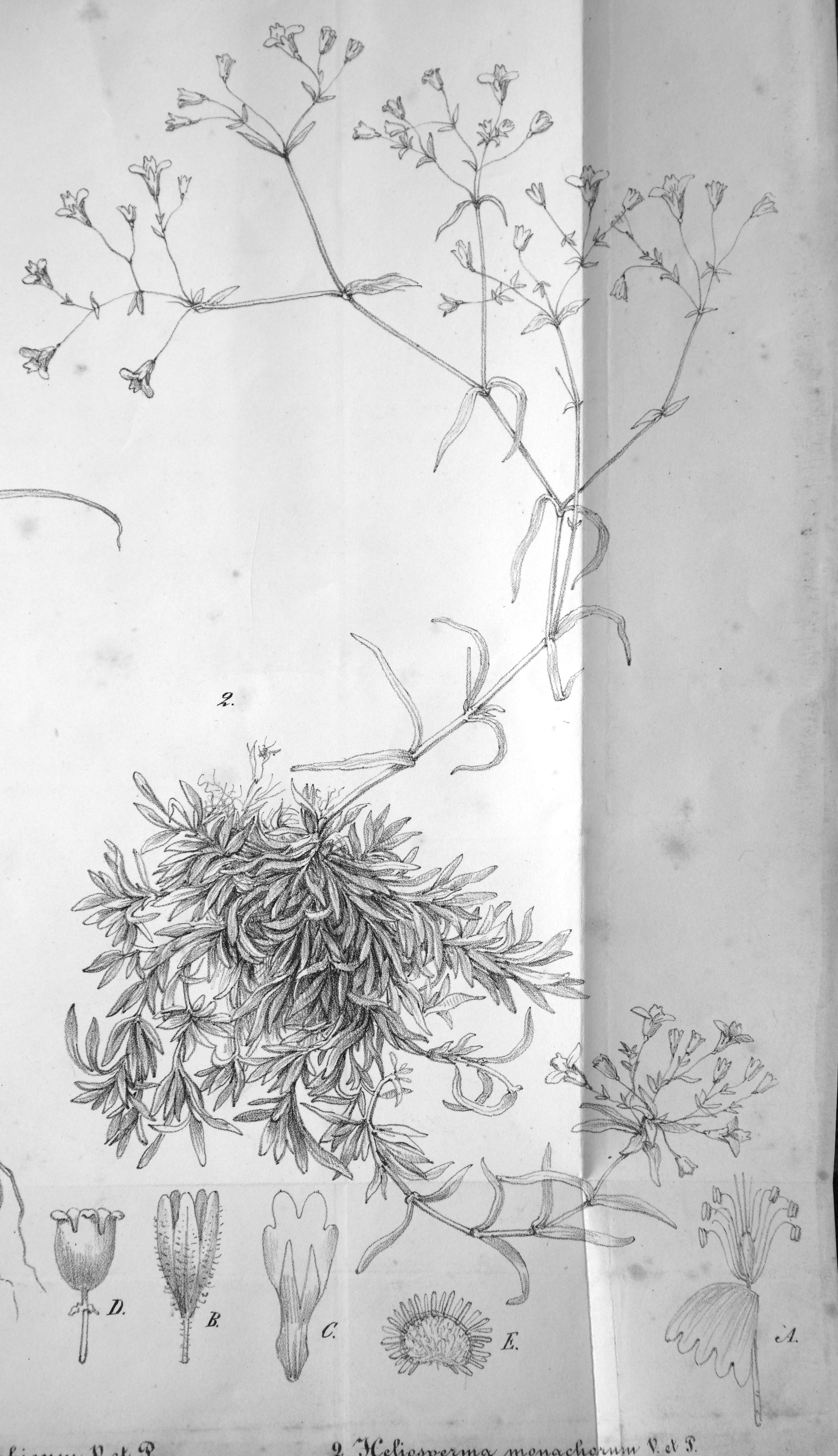 Original diagnosis Visiani et Pancic 1864 of Heliosperma monachorum